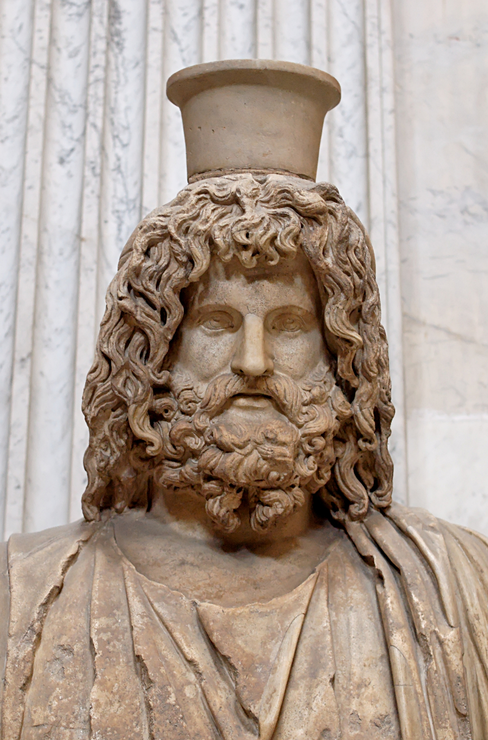 Bust of Serapis. Marble, Roman copy after a Greek original from the 4th century BC, stored in the Serapaeum of Alexandria.